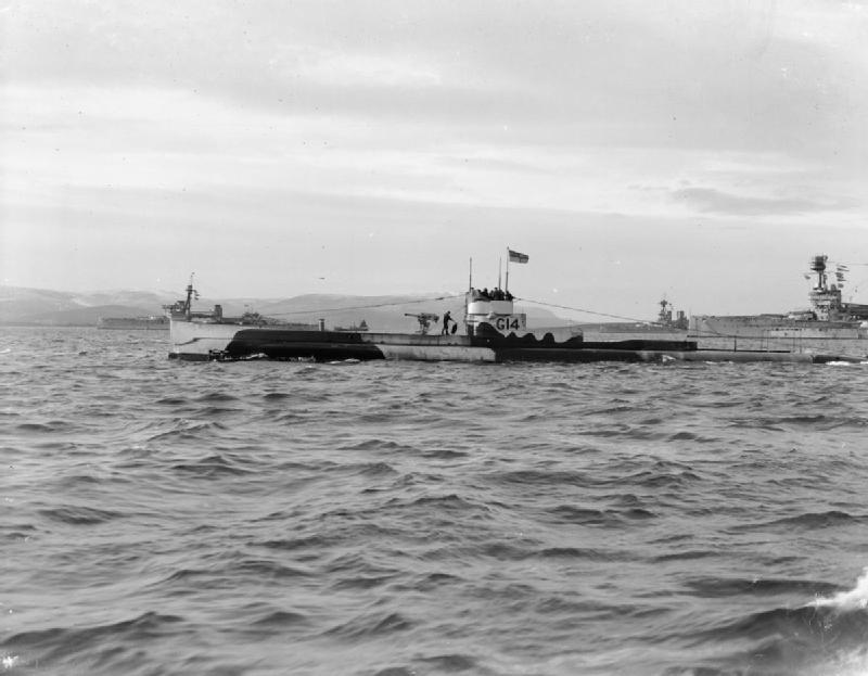 Photograph of British submarine G 14.